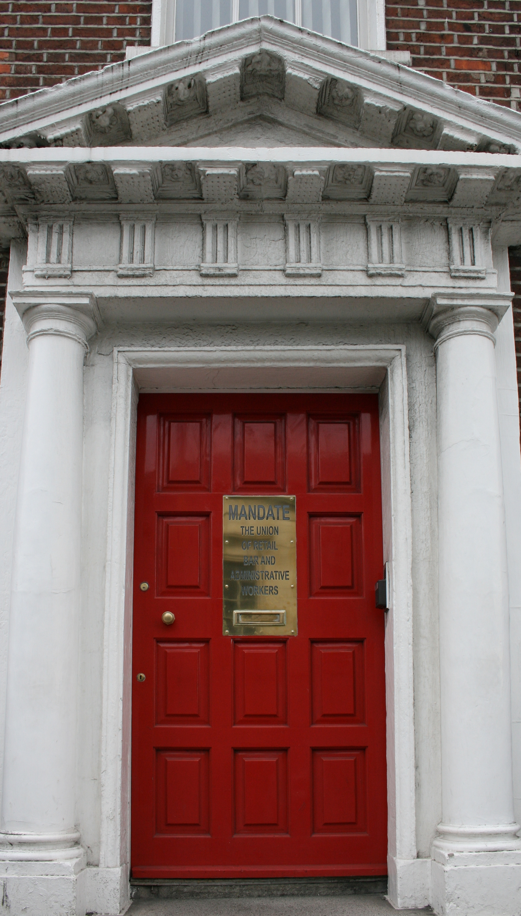 Ireland, Dublin, O'Connell Street: Door to home of "The Union of Retail, Bar and Administrative Workers"